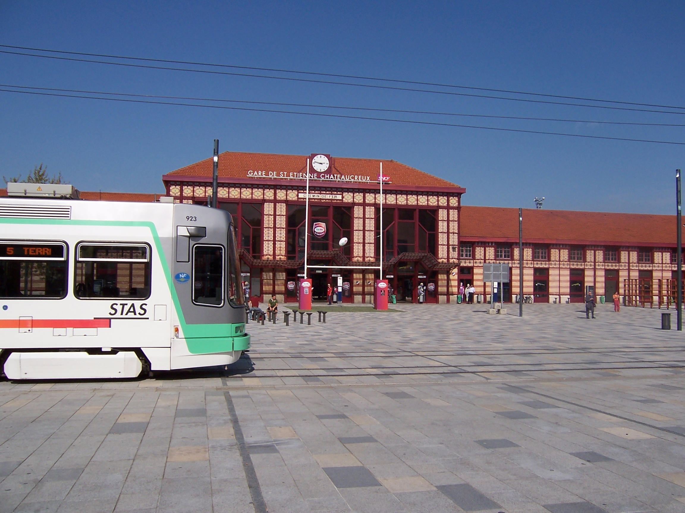 Train station of Saint-Étienne-Châteaucreux with rugby poles during the 2007 Rugby World Cup.